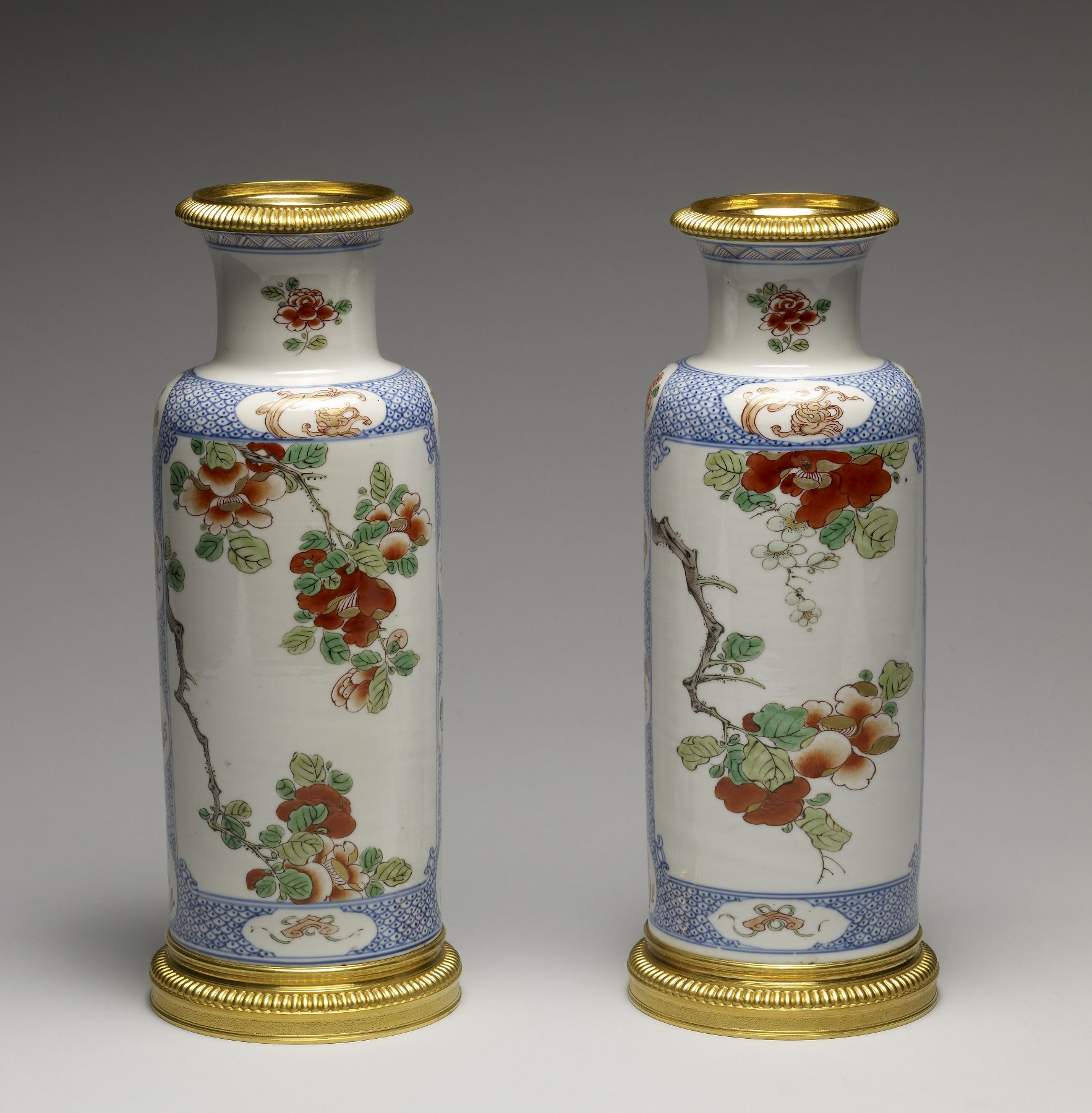 This is an example of blue and white porcelain.